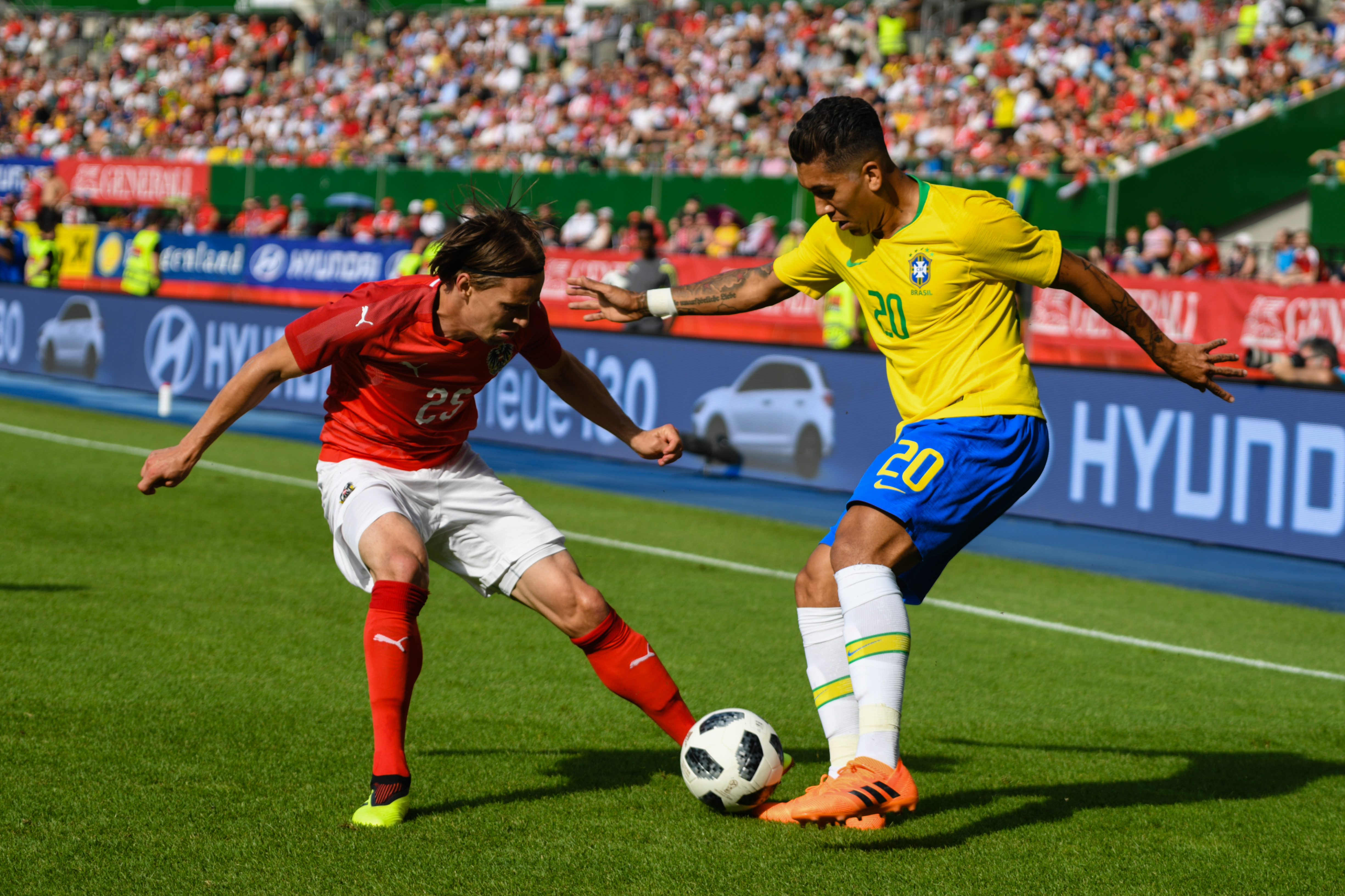 FIFA Friendly Match Austria vs. Brazil 2018/06/10 in Vienna/Ernst-Happel-Stadium. Picture shows Stefan Hierländer (AUT), Roberto Firmino (BRA).